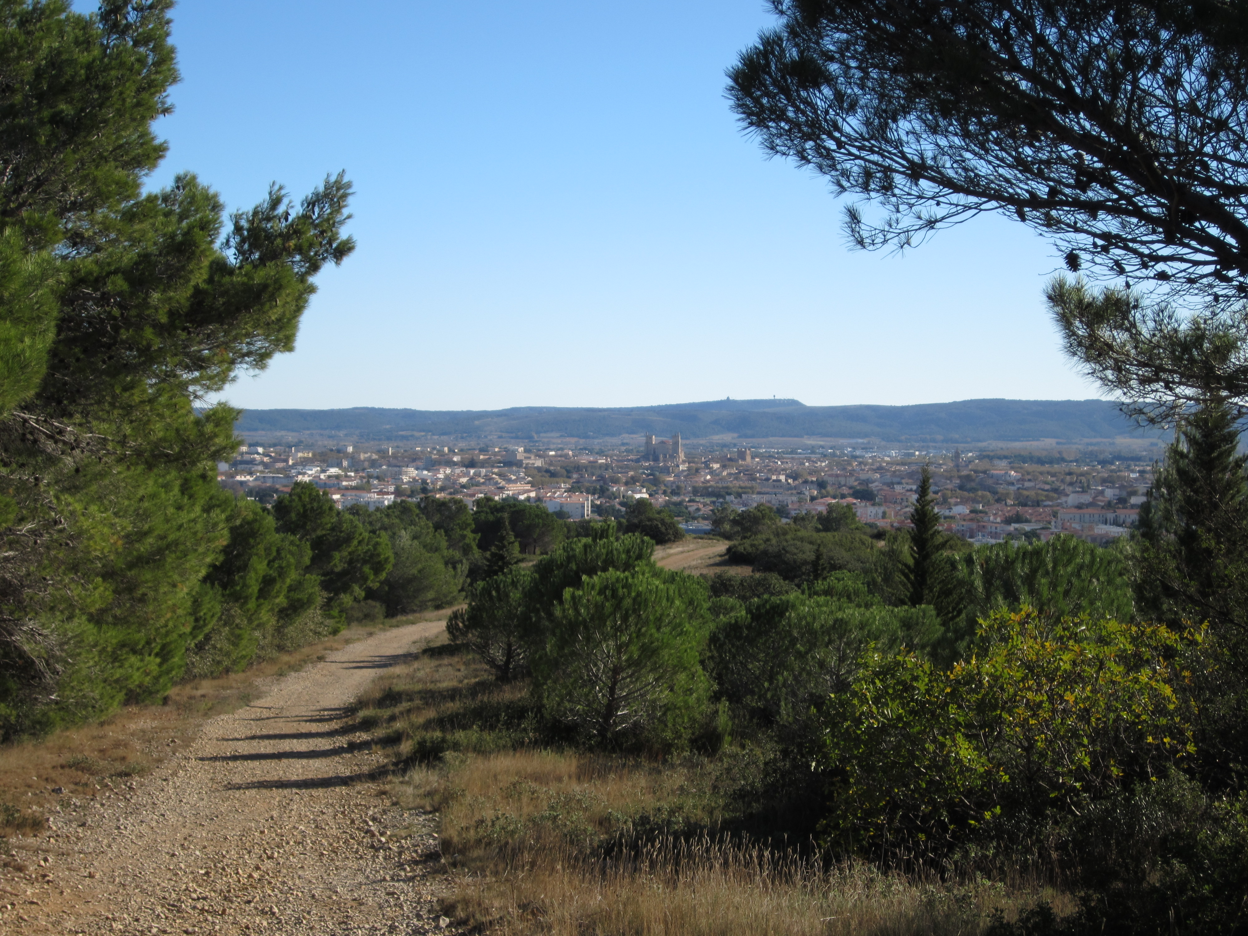 View from a hill overlooking the city of Narbonne, Languedoc-Rousillon, France